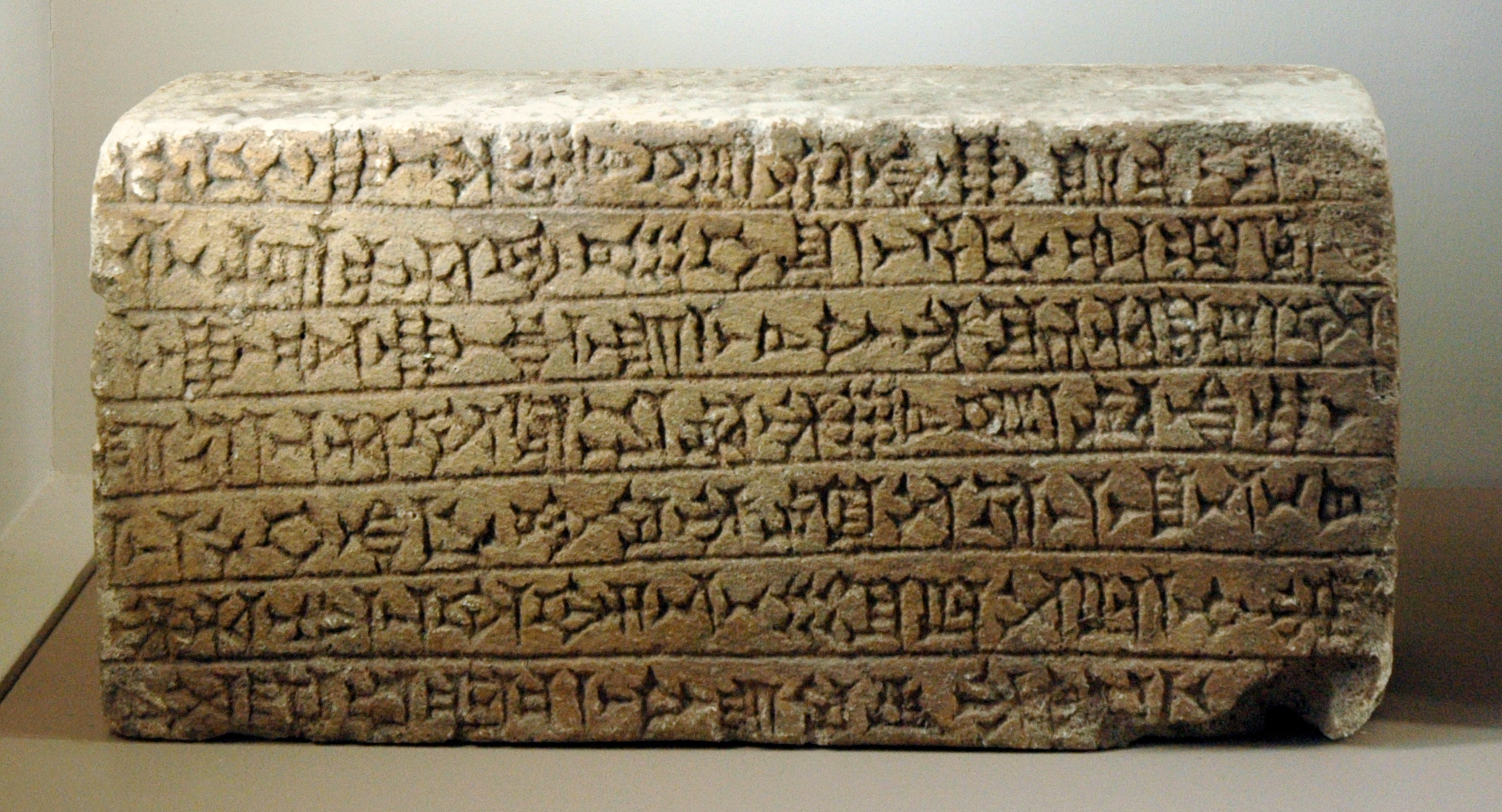 Brick of Shilhak-Inshushinak bearing an Elamite inscription about the enameled brick decoration at Susa. Glazed terracotta, ca. 1140 BC.